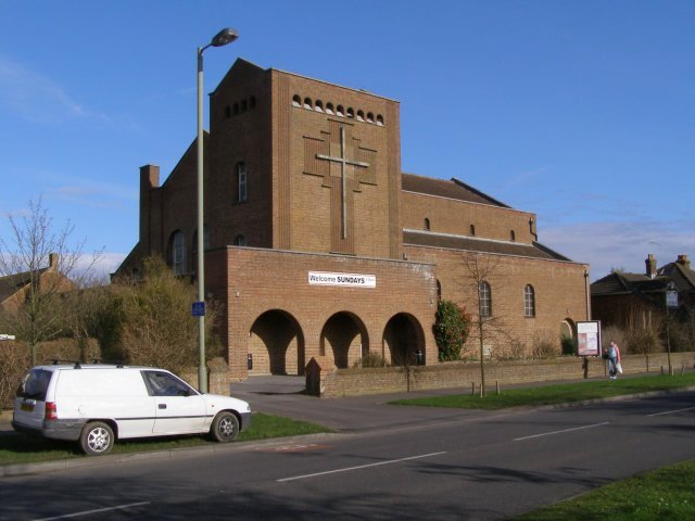 St Winfrid's parish church, Salisbury Road, Testwood, Hampshire, seen from the west